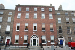 CPA Ireland Headquarters on 17 Harcourt Street, Dublin 2.